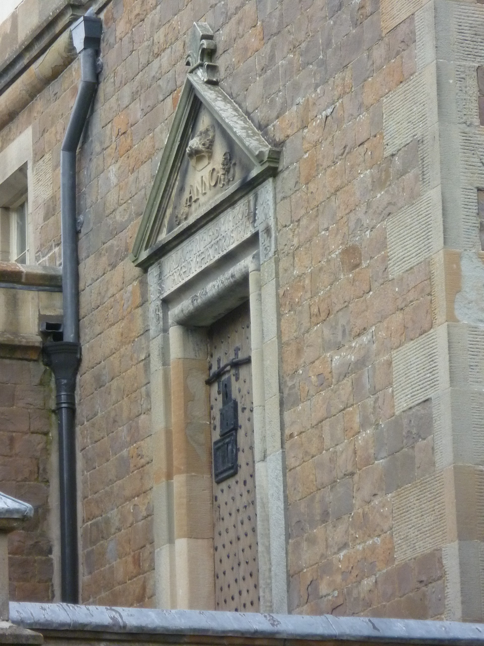 Door of the old Edinburgh tolbooth, incorporated into a side wall of Sir Walter Scott's House at Abbotsford in the Scottish Borders